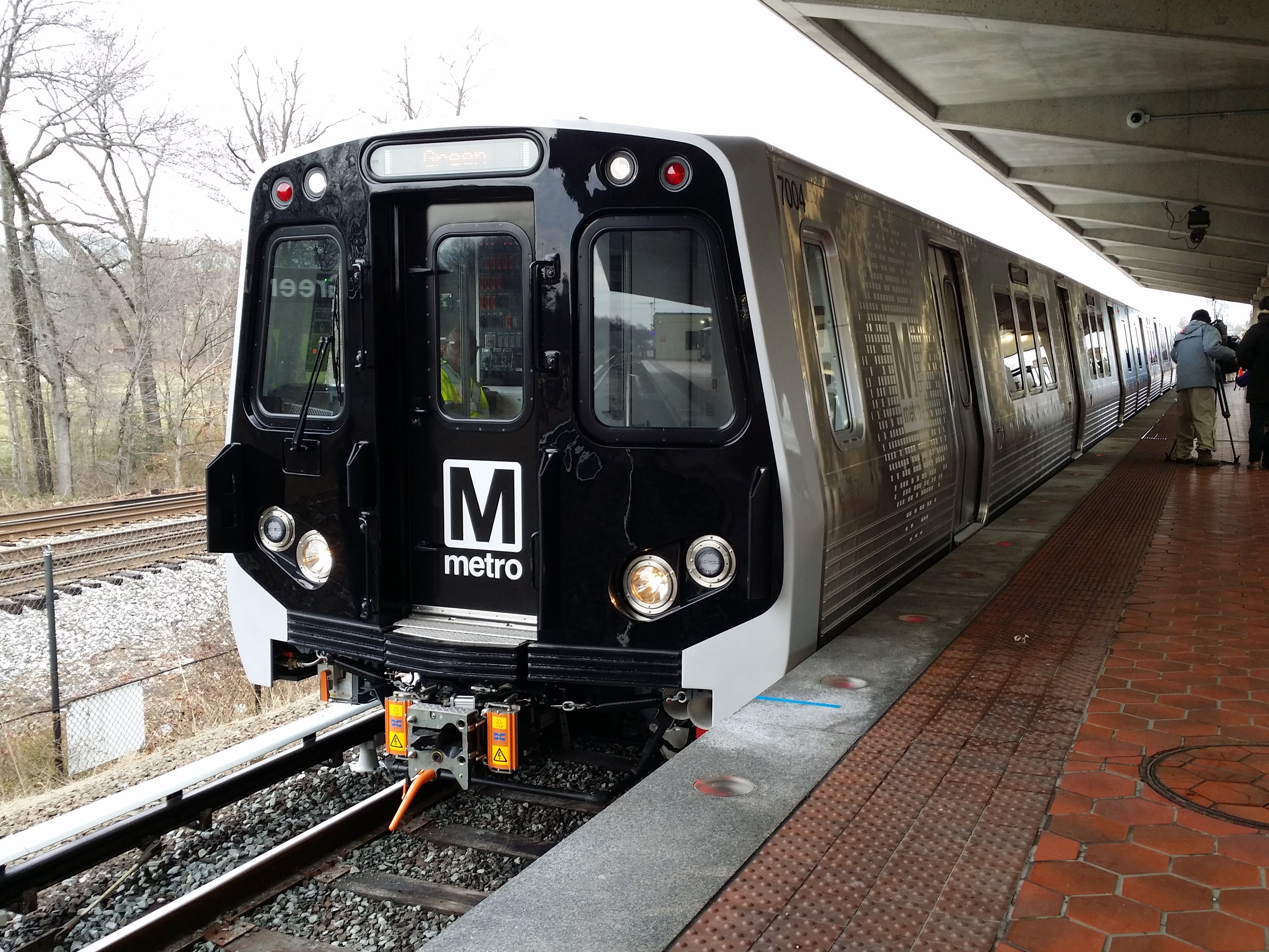 Debut of the Washington Metro's new 7000-Series railcars on January 6, 2014 at Greenbelt station in Prince George's County, Maryland. This four-car set, numbered 7004-7007, will undergo acceptance testing for several months before entering revenue service. This photo shows the head (cab) end of car 7004. Unlike earlier railcar series, which have a brown front, 7000-Series cars have a black front with the Metro "M" logo on the bulkhead door.